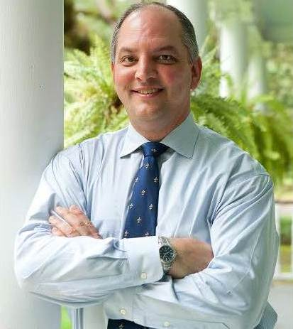 Mr. Ramsey: Attached the photograph for Rep. Edwards' Wikipedia page.